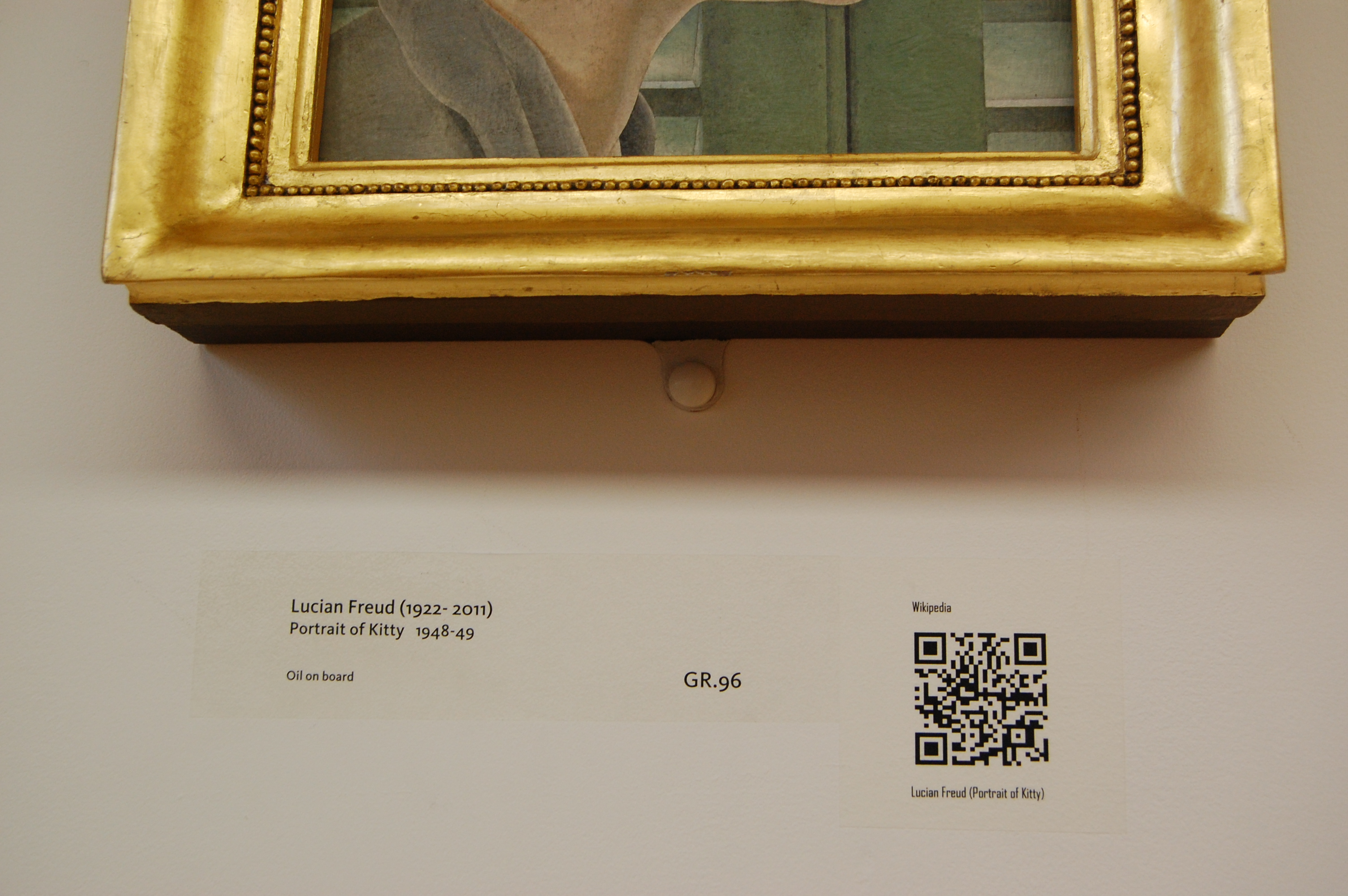 QRpedia code under Lucian Freud's Portrait of Kitty at The New Art Gallery Walsall, England.